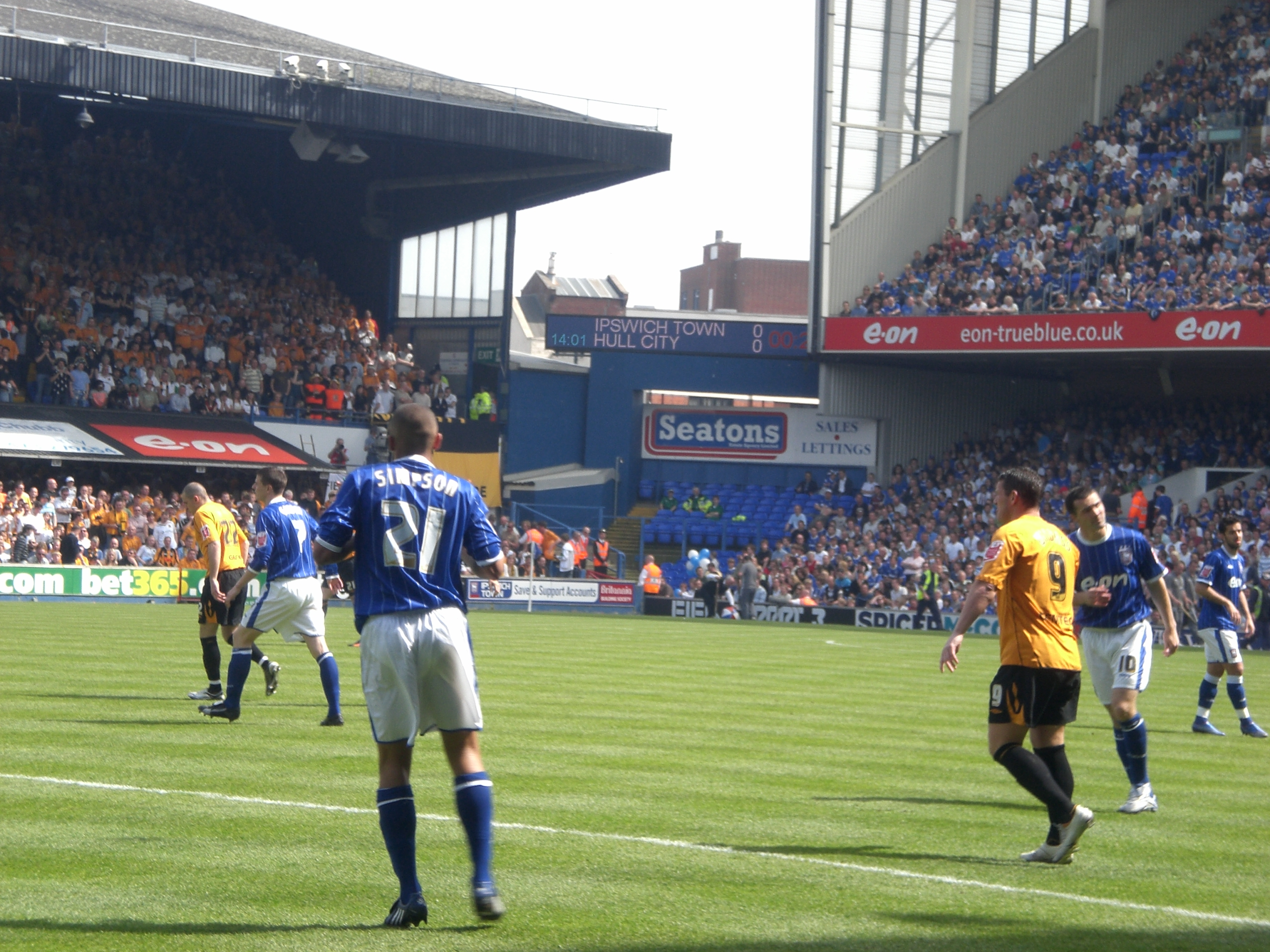 Danny Simpson playing for Ipswich Town in a match versus Hull City, 4th May 2008.